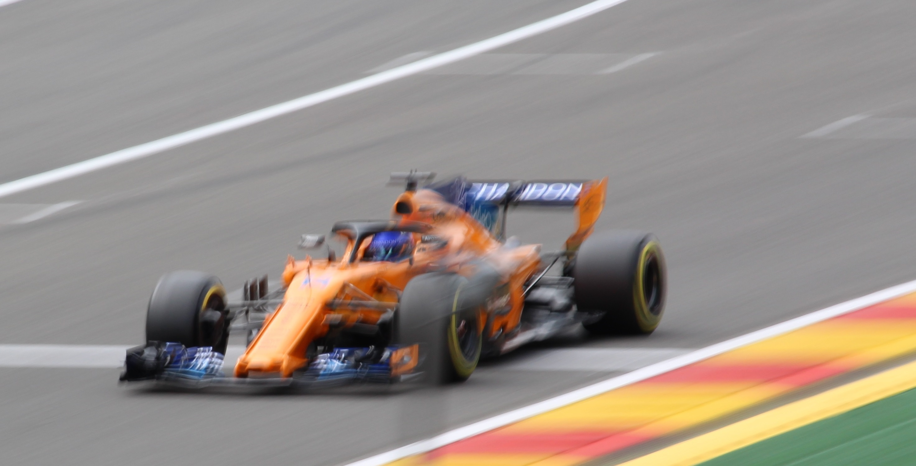 Fernando Alonso in his McLaren MCL33 at the 2018 Belgium GP.